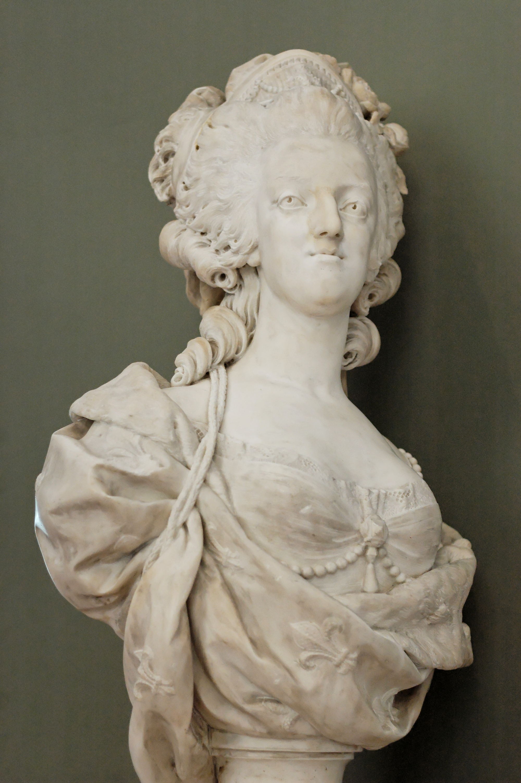 Portrait of Queen Marie-Antoinette of France.